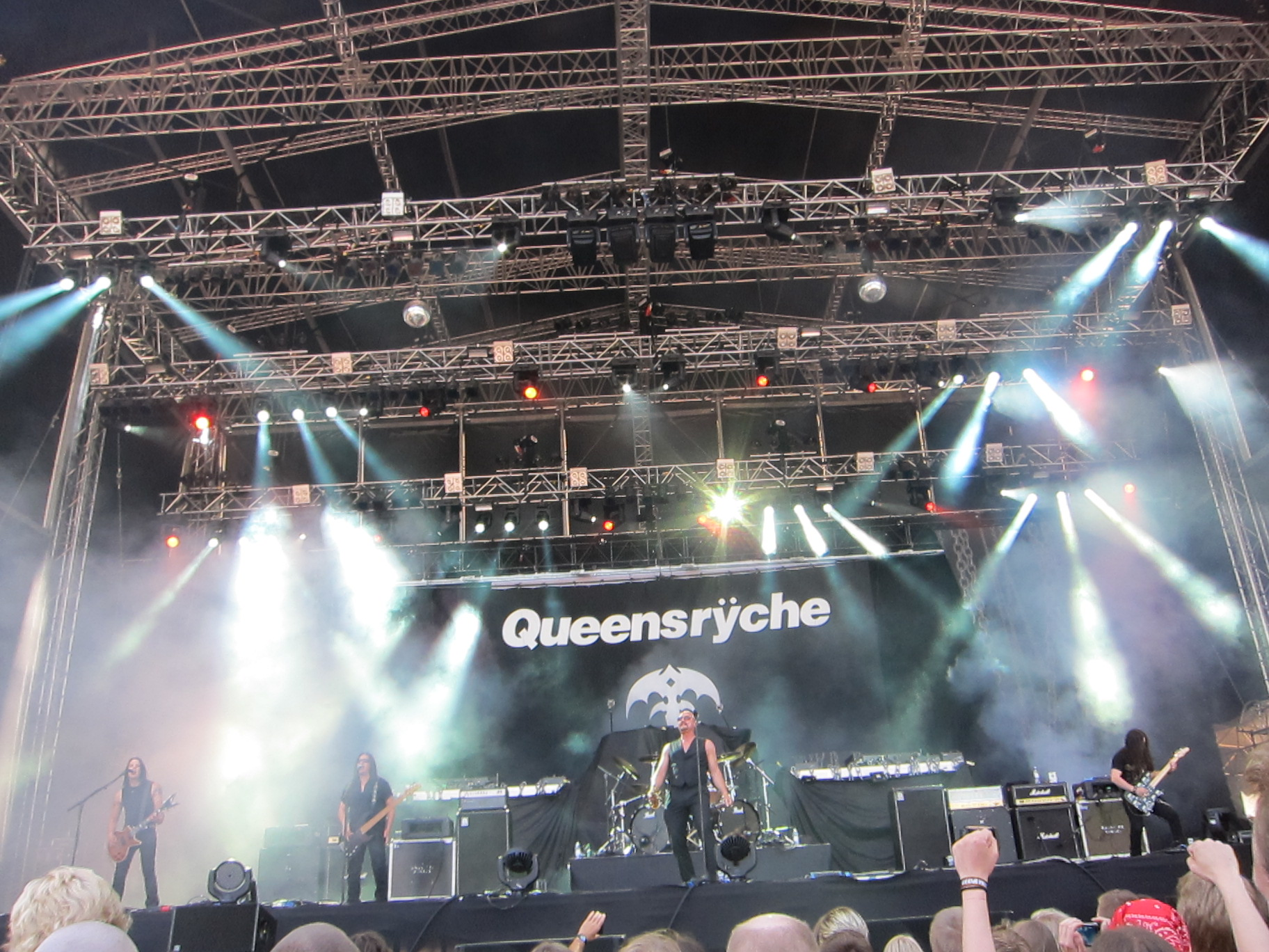 Queensrÿche performing at the Sauna Open Air Metal Festival in Tampere, Finland.